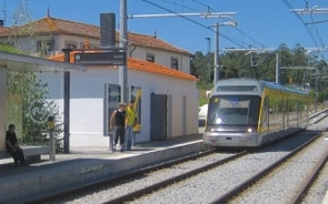 Former Crestins Halt, integrated in the Crestins Stop of Metro do Porto, in Portugal.